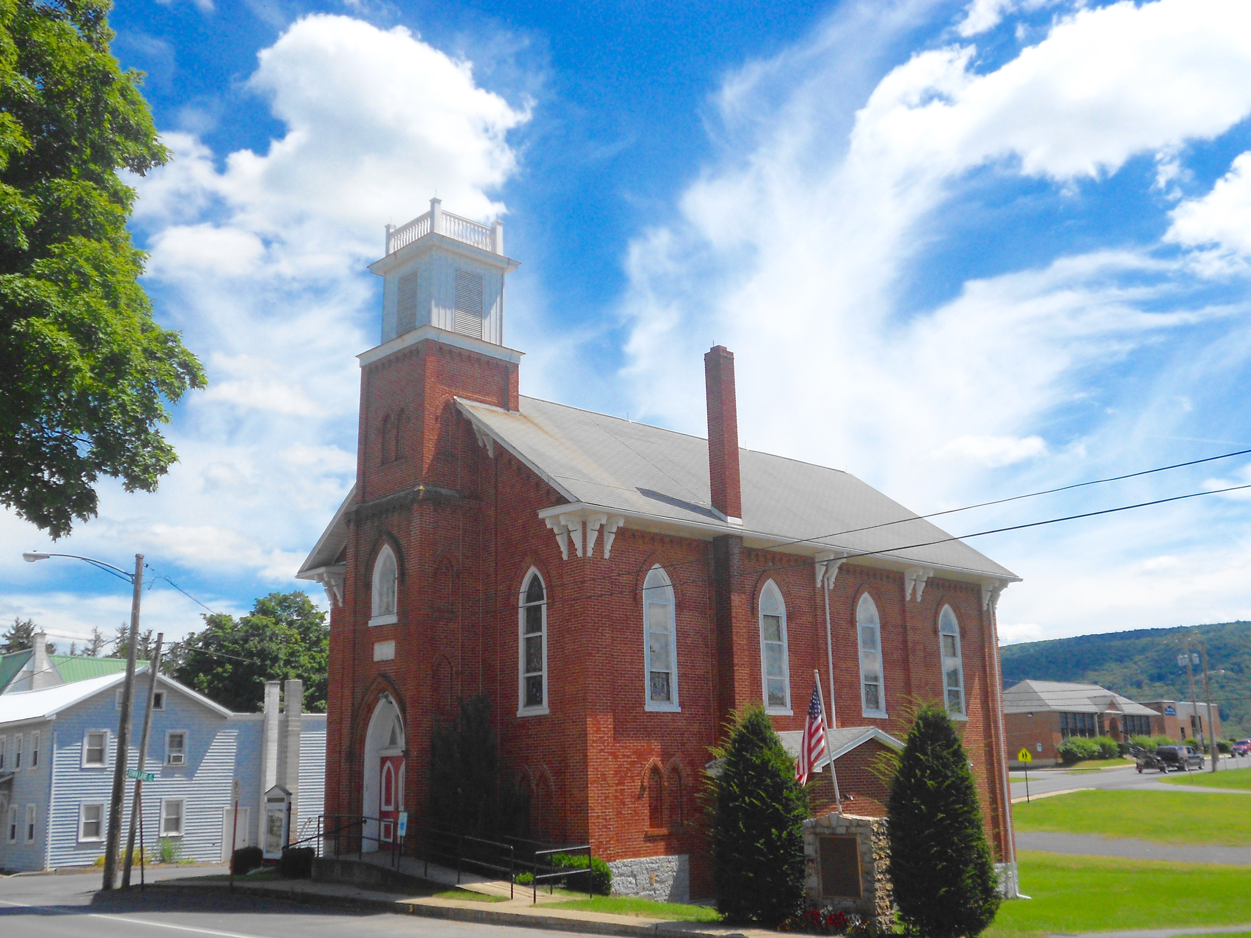 St. Peters United Church of Christ Church in Rebersburg, Centre County, Pennsylvania. Formerly "Reformed". Part of the Rebersburg Historic District, listed on the NRHP on December 7, 1979 (#79002188), on Pennsylvania Route 192 in Rebersburg, Miles Township. 40°56′40″N 77°26′35″W This church has something of an odd relationship with the one next to it, St. Peters Lutheran Church. They share a cemetery in back of their properties. They have a sign on the doors showing that they alternate services during the summer so that each congregation attends the other church half the time. I'm speculating that they were founded together as one "German church" during the 18th century and then split later, but still retain a common bond.